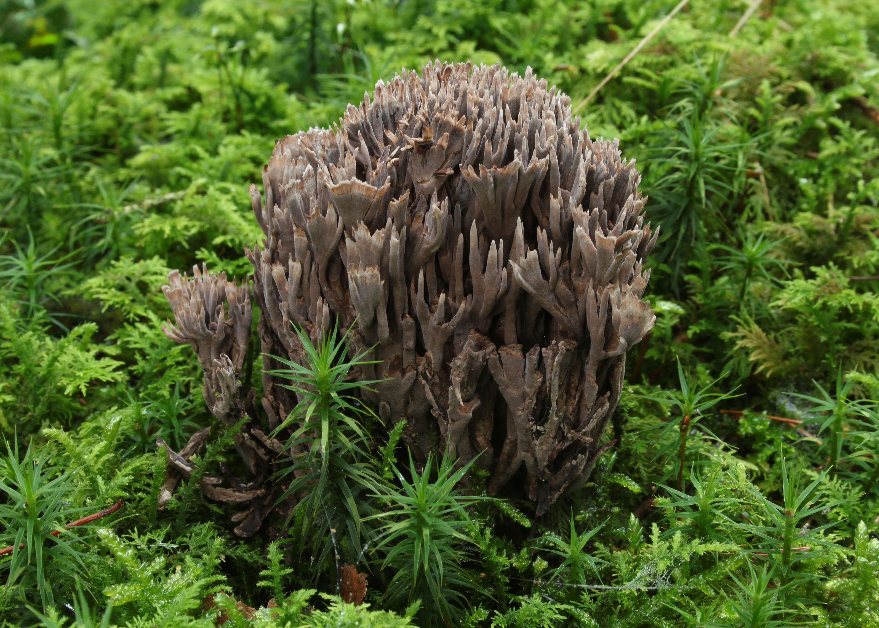 Stinking Earthfan Thelephora palmata, Family: Thelephoraceae, Location: Germany, Biberach.